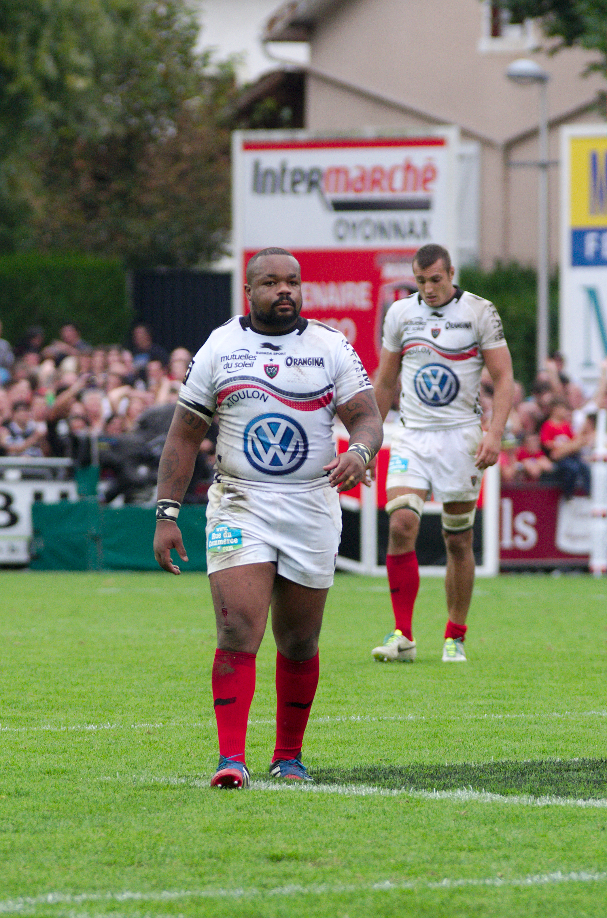 USO - RCT - 28-09-2013 - Stade Mathon - Mathieu Bastareaud